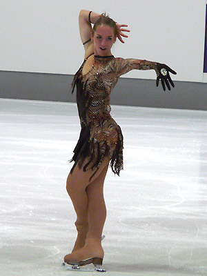 Constanze Paulinus during her free skate at the 2007 Nebelhorn Trophy.